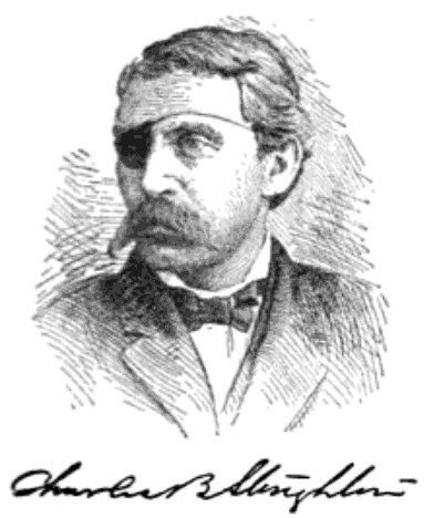 Charles B. Stoughton, Civil War commander of 4th Vermont Infantry, with eye patch.